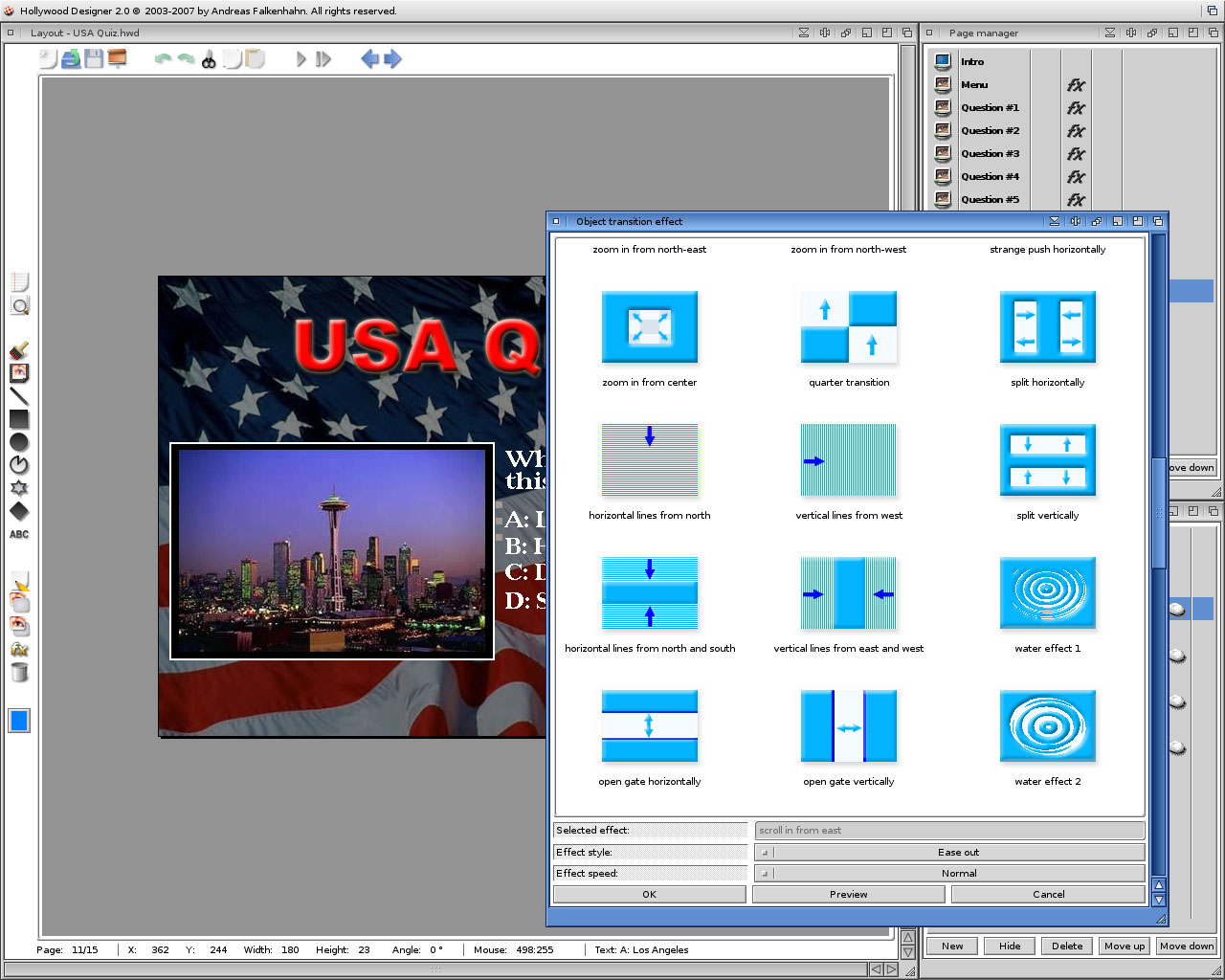 Screenshot of Hollywood Designer running on AmigaOS 4